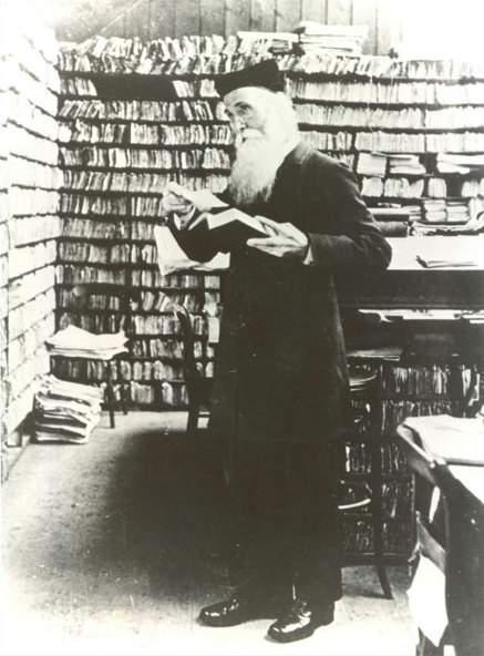 James Murray, lexicographer and philologist. He was the first editor of the Oxford English Dictionary.